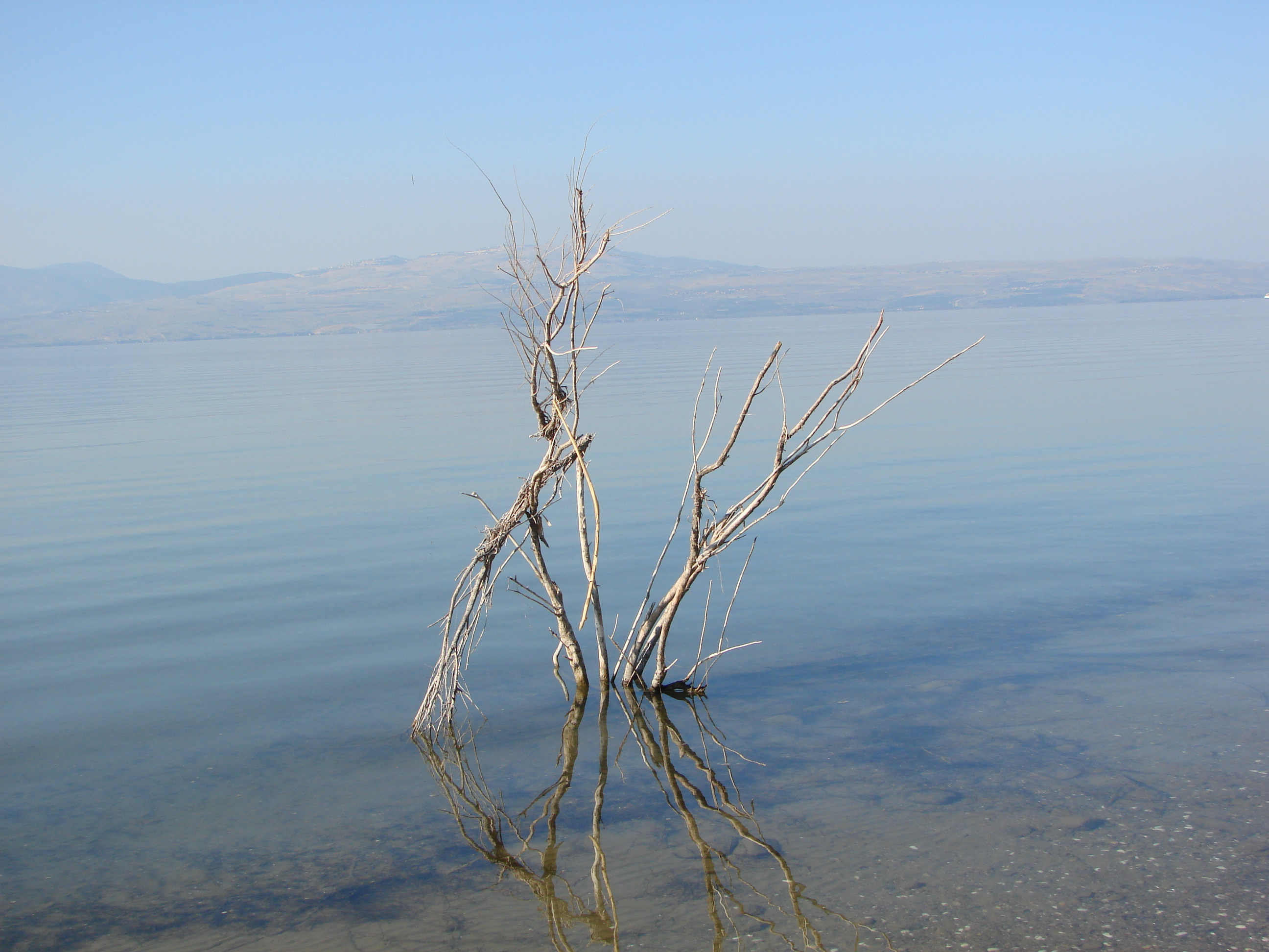 Sea of Galilee